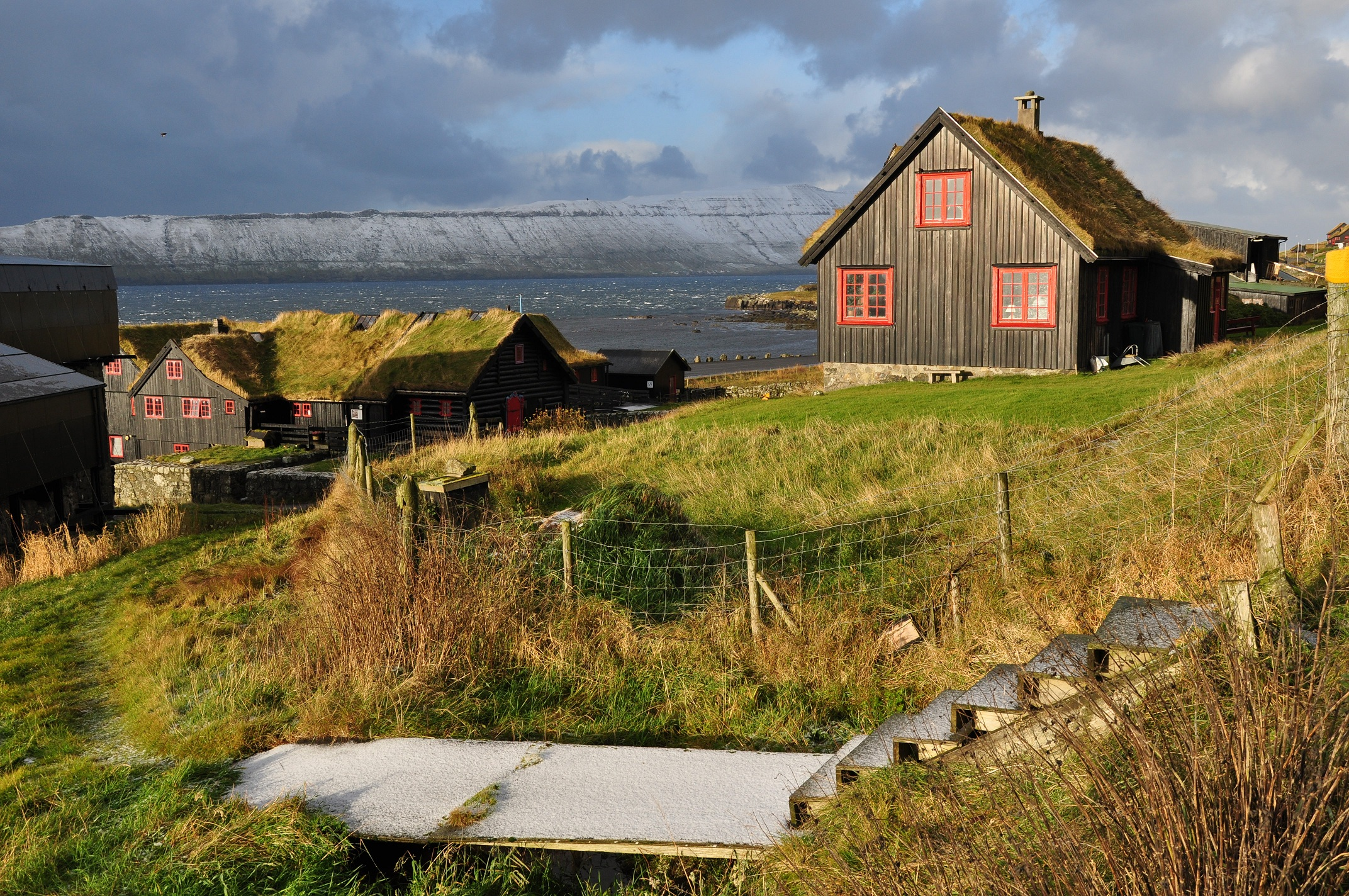 The village of Kirkjubøur on the island of Streymoy (Faroe Islands) seen from a road called Heima á Garði. At left is Kirkjubøargarður (also called Roykstovan), the worlds' oldest still inhabited wooden house, also a museum, from the 11th century. In the background the island Hestur.